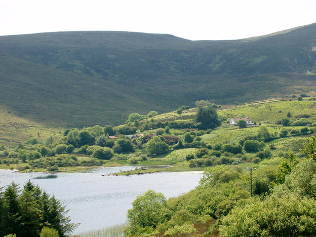 Head of Lough Talt from the Sligo Way, near to Tawnyany, Largan and Gleneask, Sligo, Ireland. Farms occupy the gentle country by the head of the lake. Behind, the land rises steeply into the southern range of the Ox Mountains